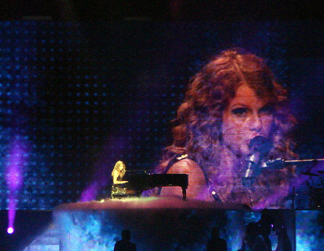 Country singer Taylor Swift performing in Los Angeles, California during her Fearless Tour in 2010.